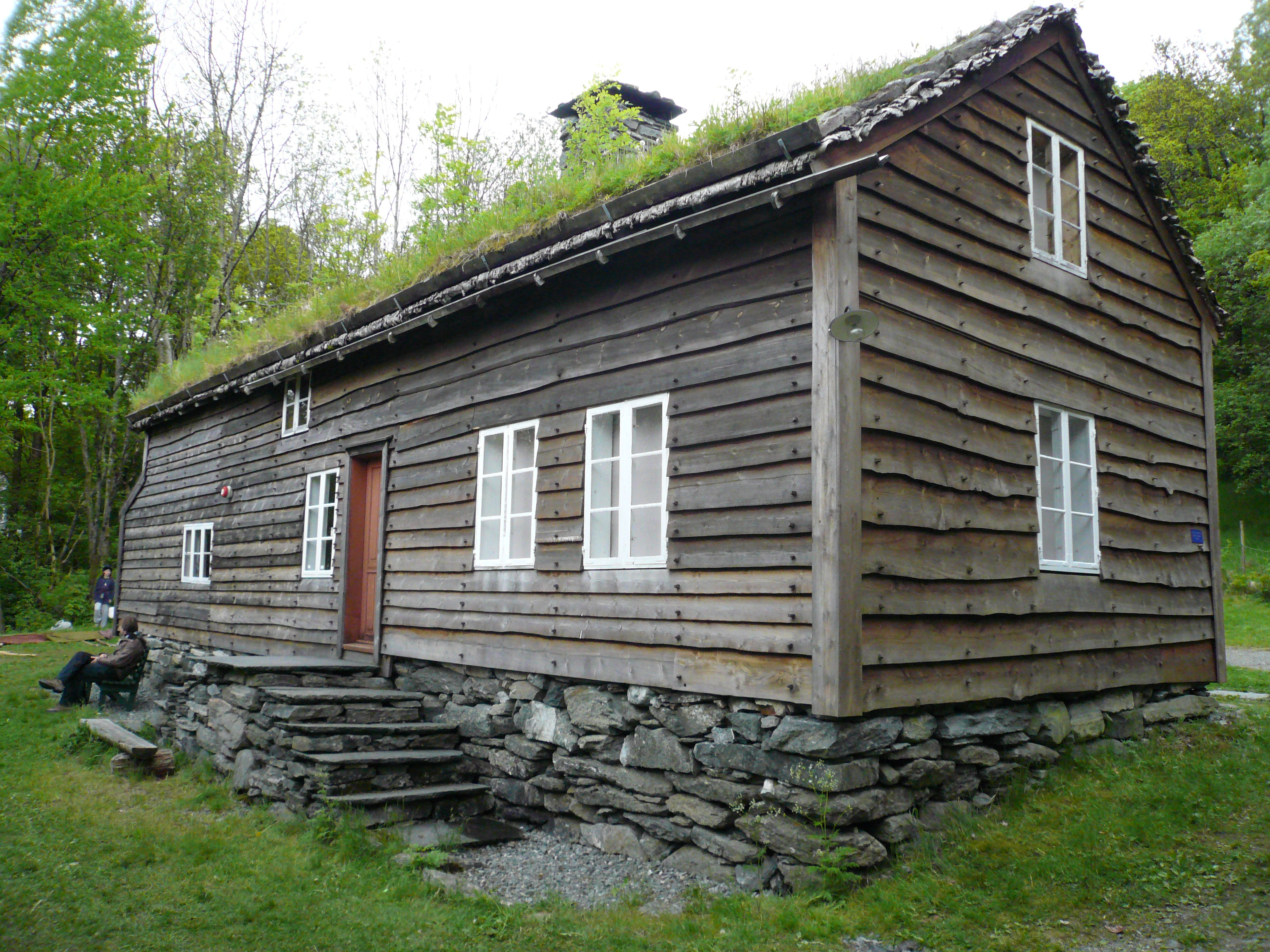 Recidential building from Fjellskål, Osterøy, at Hordamuseet.